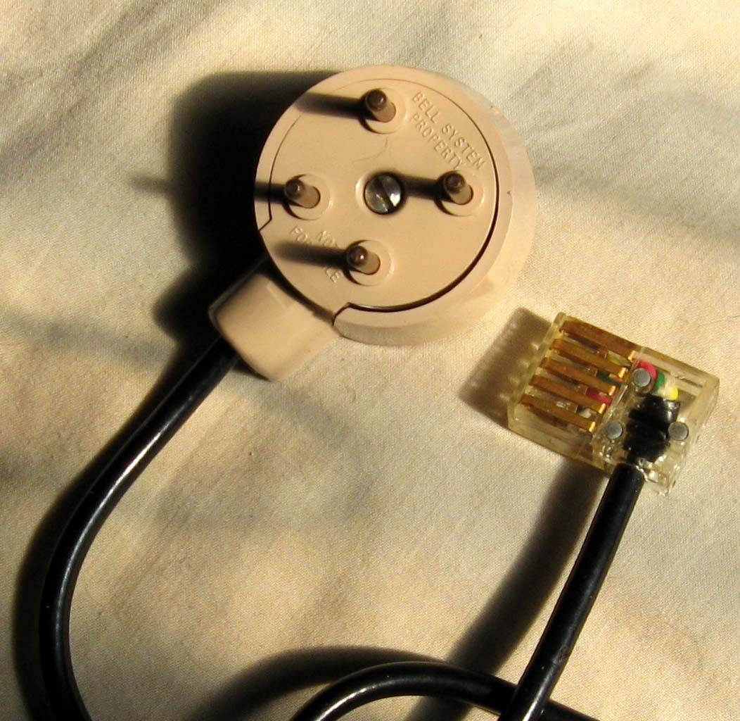 Four prong standard Telephone plug as used in Bell System phones from mid 1960s to mid 1970s, on a line cord having a five pin flat plug at the phone end as used at that time on Trimline desk phones.